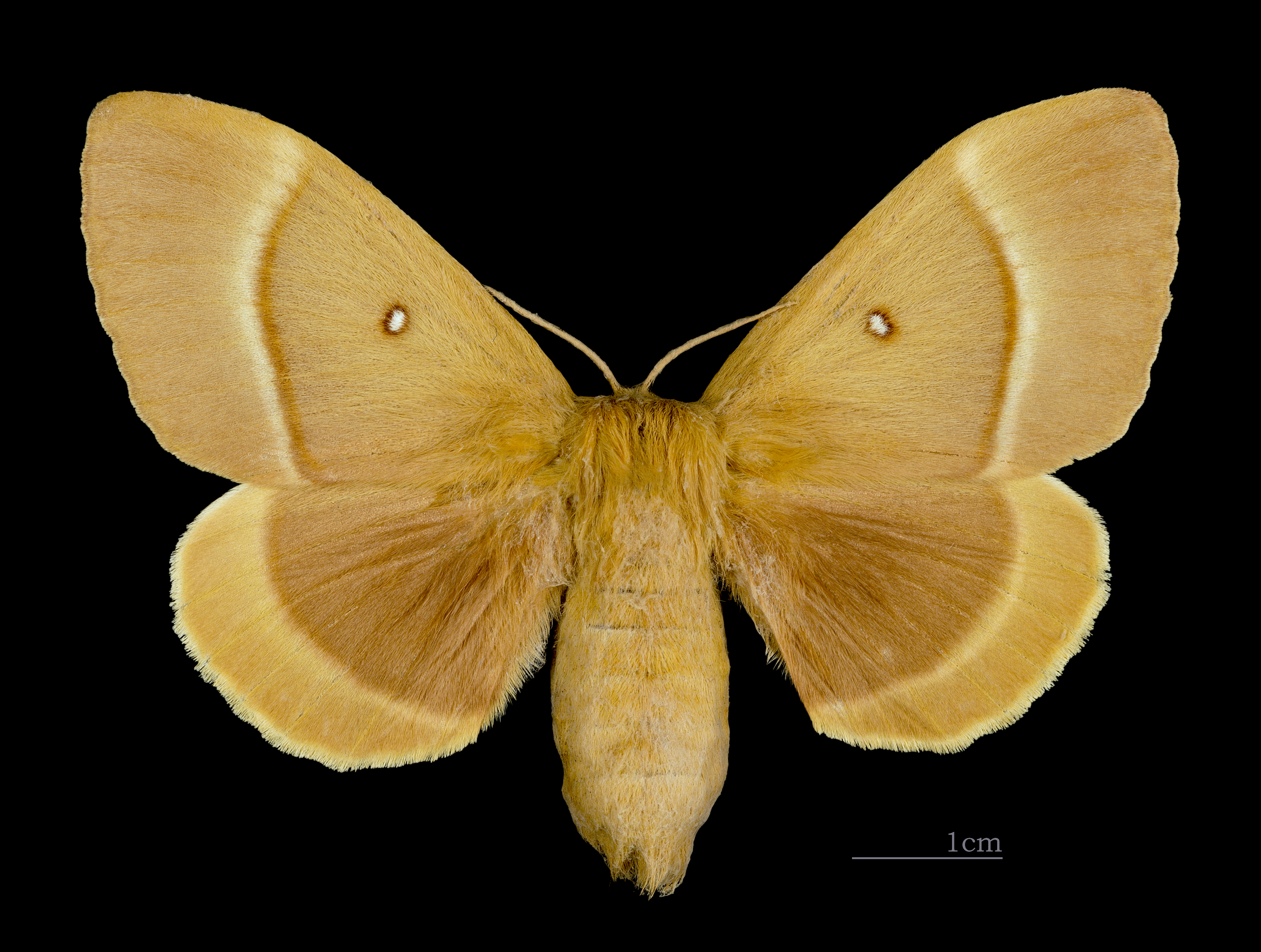 Oak Eggar - Dorsal side